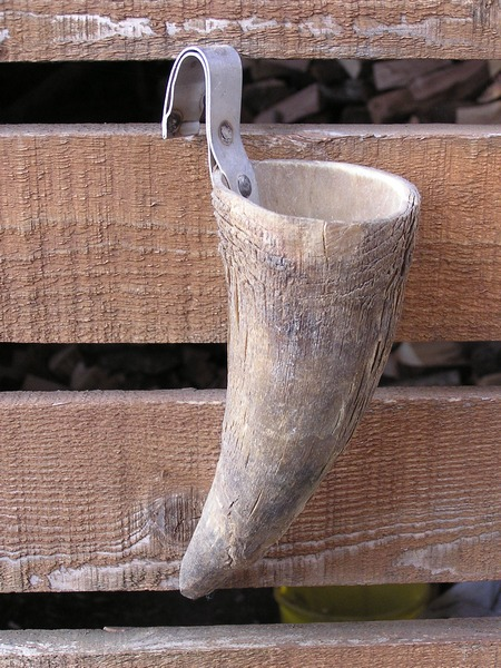 Horn for keeping whetstones, from South Tirol.